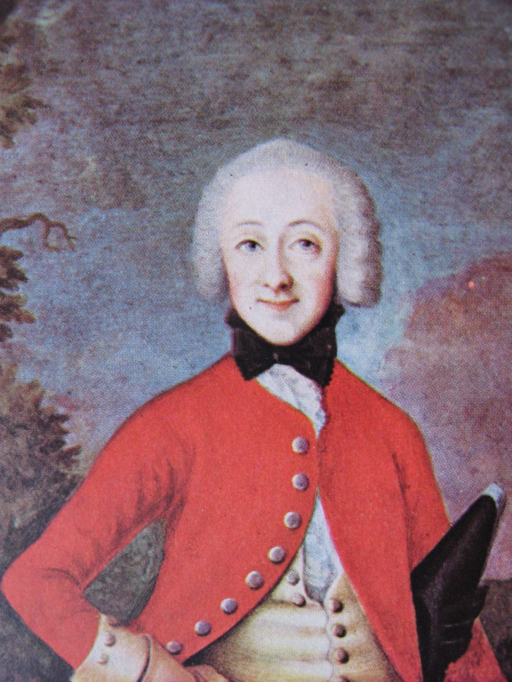 Portrait of Count Hannibal Wedell-Wedellsborg (1731-1766)